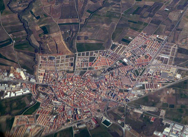 Illescas